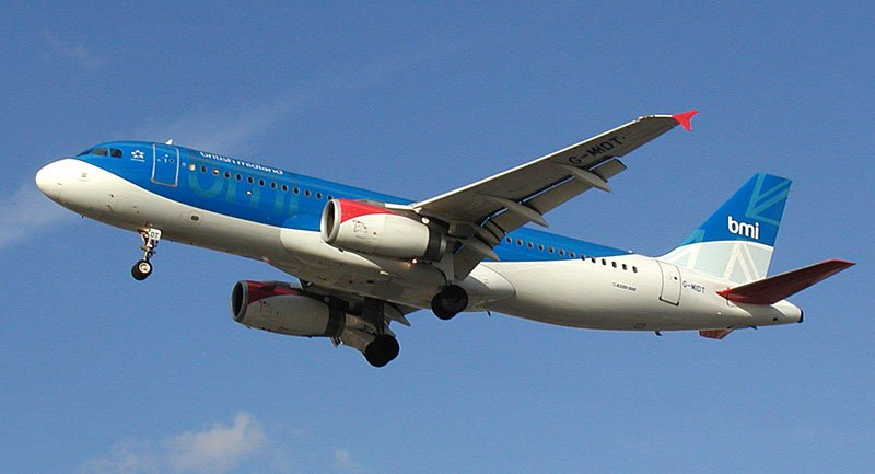 An Airbus A320-200 of British Midland Airways (G-MIDT) on the approach to London (Heathrow) Airport.